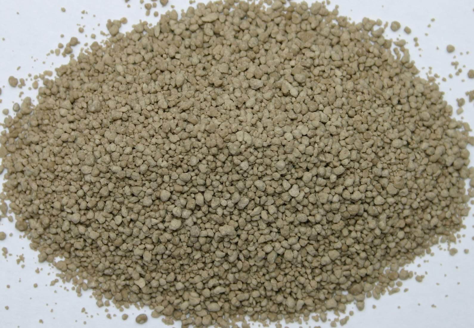 whole cane sugar, grey